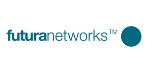 Futura Network's logo using Folio typeface FolioTEEMed font. Trademark of Futura Networks.